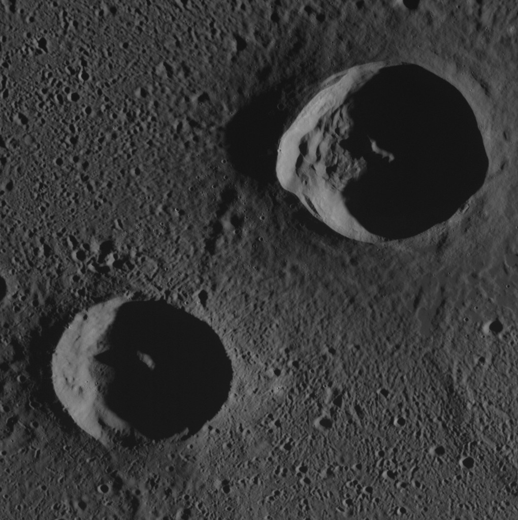 Laxness crater (bottom left) and Fuller crater (top right), on Mercury, within Goethe basin near the north pole. North is to the left. Emission Angle: 28.4 Incidence Angle: 83.1 Latitude: 83.0 Longitude: 314.3 Phase Angle: 83.8